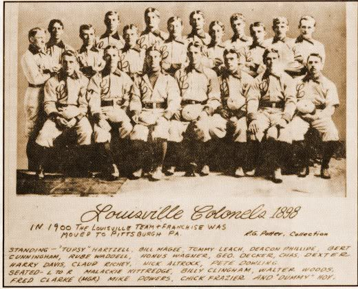 1898 Louisville Colonels baseball teamStanding: L-R: Topsy Hartsel (OF), Bill Magee (P), Tommy Leach (IF), Deacon Phillippe (P), Bert Cunningham (P), Rube Waddell (P), Honus Wagner (1B), George Decker (1B), Charlie Dexter (OF), Harry Davis (1B), Claude Ritchey (SS), Nick Altrock (P), Pete Dowling (P)Sitting: L-R: Malachi Kittridge (C), Billy Clingman (3B), Walt Woods (P), Fred Clarke (LF/Mgr.), Doc Powers (C), Chick Fraser (P), Dummy Hoy (OF)